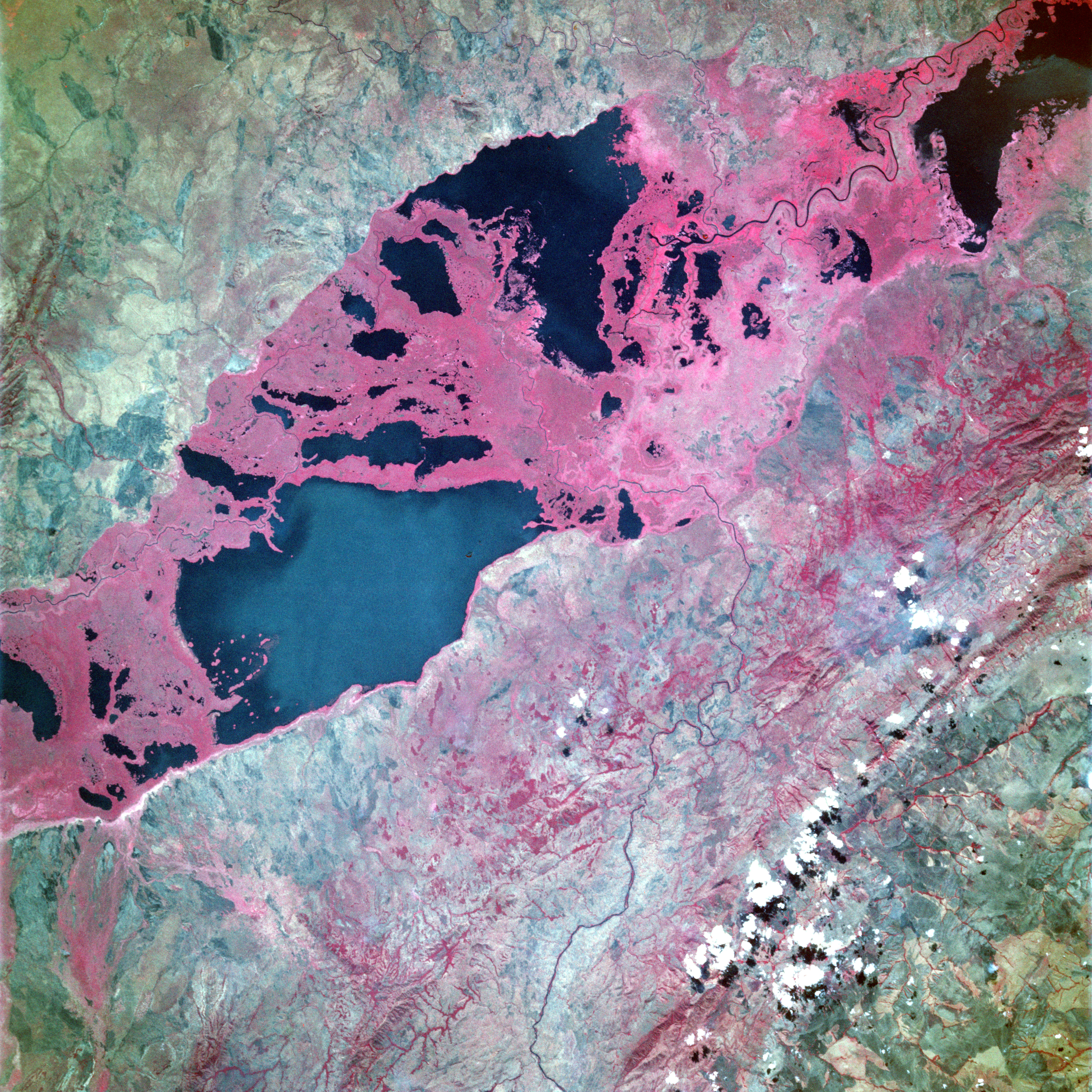 Lake Upemba, Zaire June 1993 This striking photograph shows a series of dark freshwater lakes strung together in a general northeast-southwest alignment in southern Zaire. The brilliant red of the color infrared film indicates a vibrant growth of lush vegetation throughout the area, especially in the marshlands separating the lakes. The largest area of open water is Lake Upemba, bordered on the east and southeast by Upemba National Park; specific open water channels are visible within the densely vegetated swampland between the rivers. Water moves through the complex maze of rivers, freshwater marshes, and broad floodplains generally toward the north into the Lualaba River, which eventually becomes the Zaire (Congo) River. The Lufira River winds its way between two northeast-southwest-trending, low mountain ranges as it flows northward into the floodplain. (Refer to STS-057-104-063 for a photograph of Lake Mweru, located due east of Lake Upemba on the Zaire-Zambia border.)